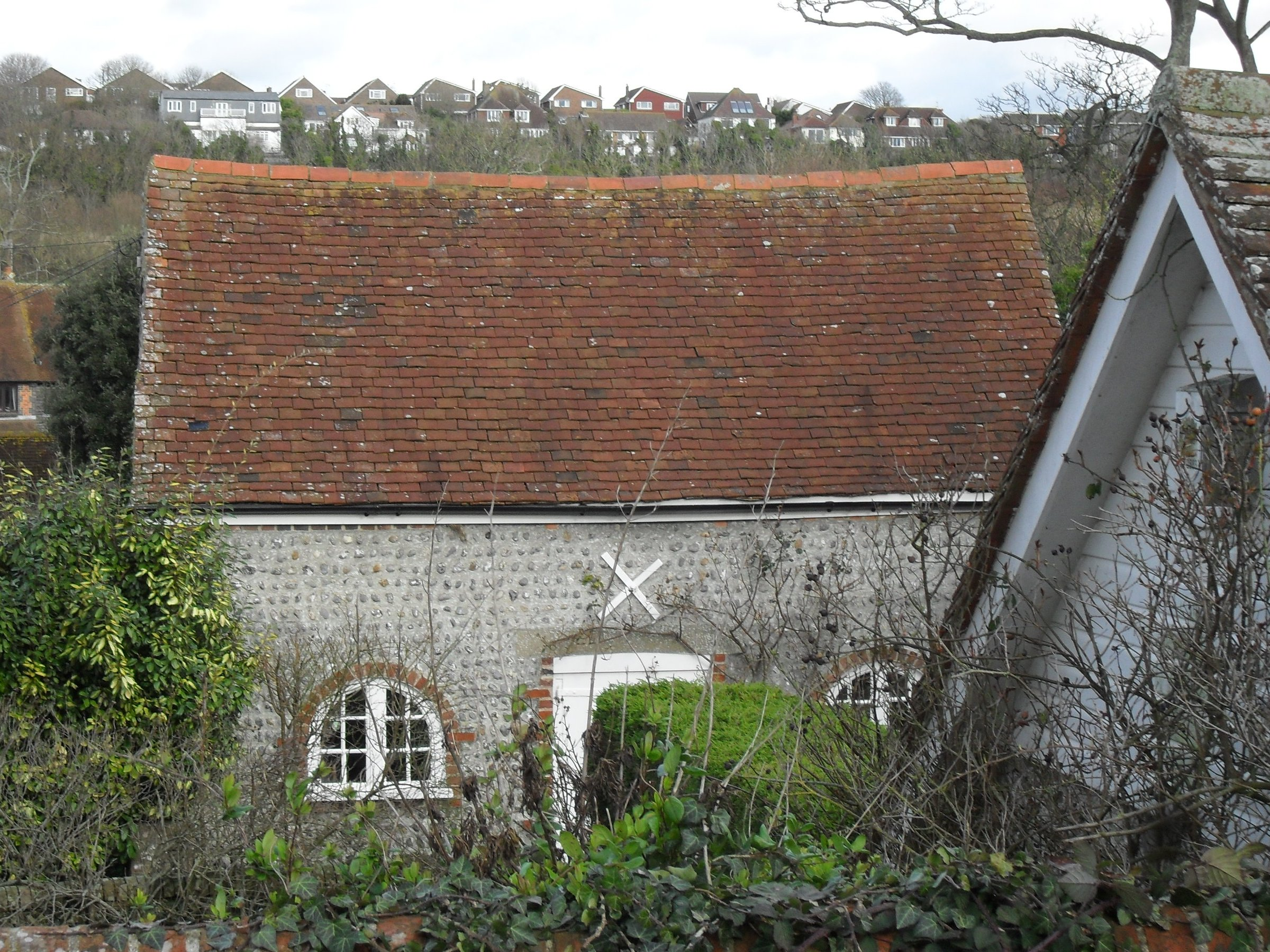 Coach House at Ovingdean Rectory, Greenways, Ovingdean, City of Brighton and Hove, England. Built in about 1807, contemporary with the adjacent rectory. Listed at Grade II by English Heritage (IoE Code 480796)